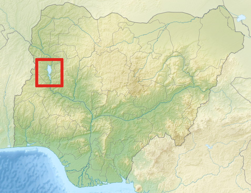 Relief location map of Nigeria. * Projection: Equirectangular projection, strechted by 100.0%. * Geographic limits of the map: :* N: 14.0° N :* S: 4.0° N :* W: 2.0° E :* E: 15.0° E * GMT projection: -JX16.154400000000003cd/12.42646153846154cd * GMT region: -R2.0/4.0/15.0/14.0r * GMT region for grdcut: -R2.0/4.0/15.0/14.0r * Relief: SRTM30plus. * Made with Natural Earth. Free vector and raster map data @ .